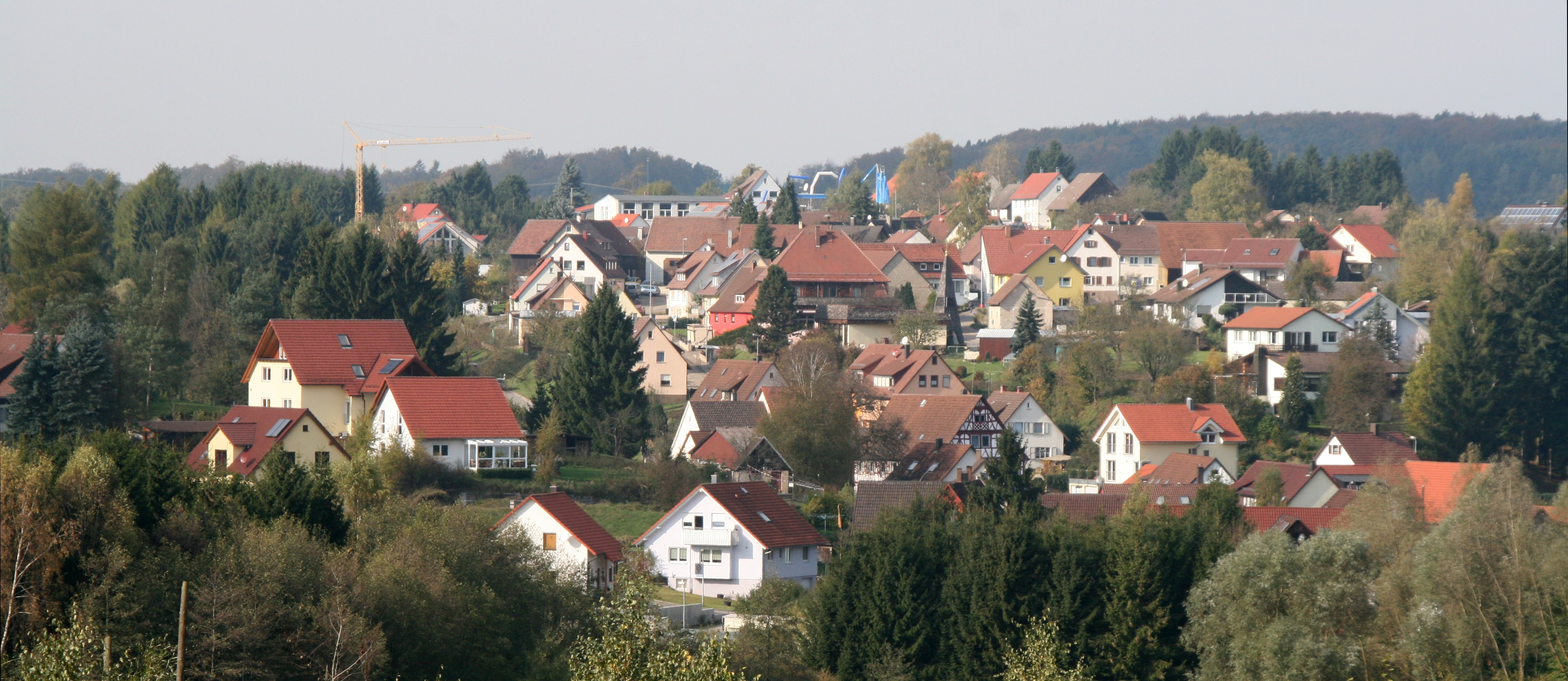 Wüstenrot-Finsterrot from the South-East